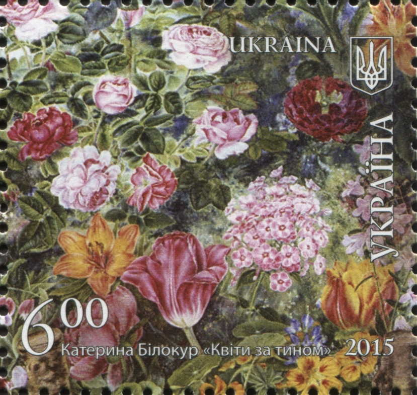 Stamps of Ukraine, 2015